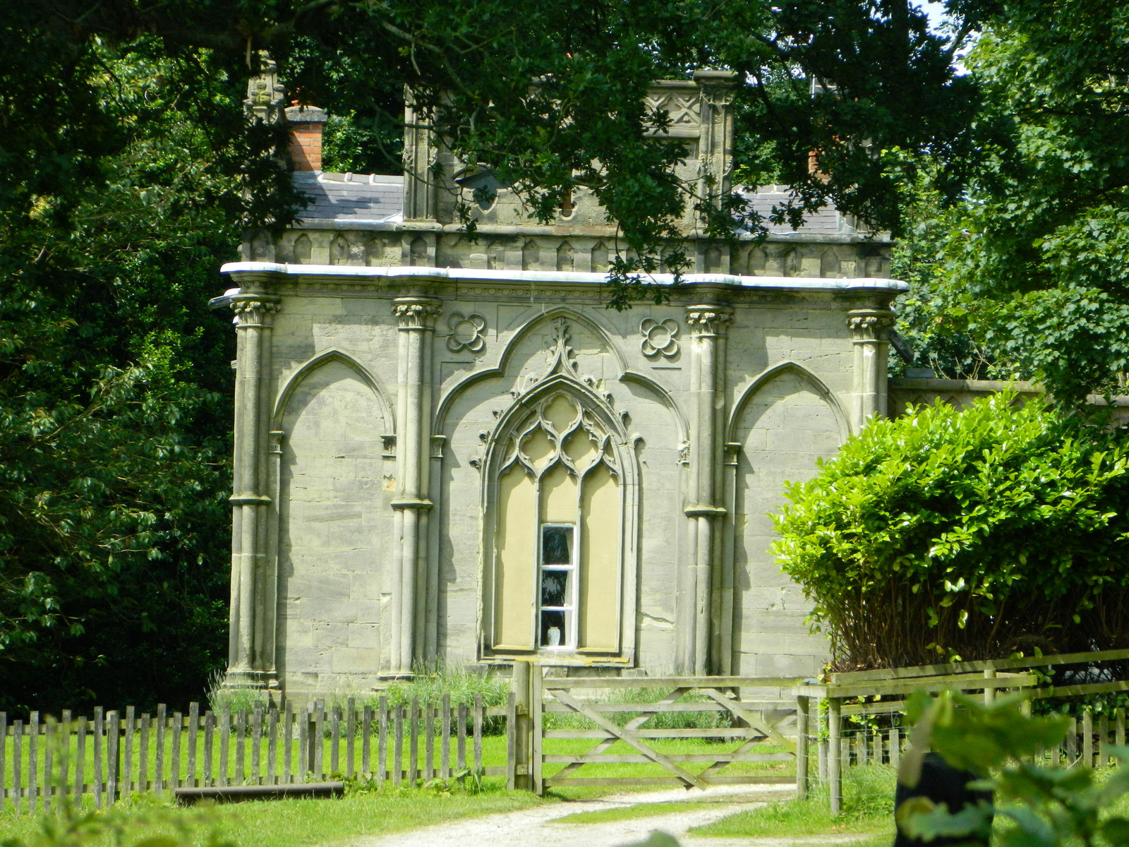 Gothic Temple